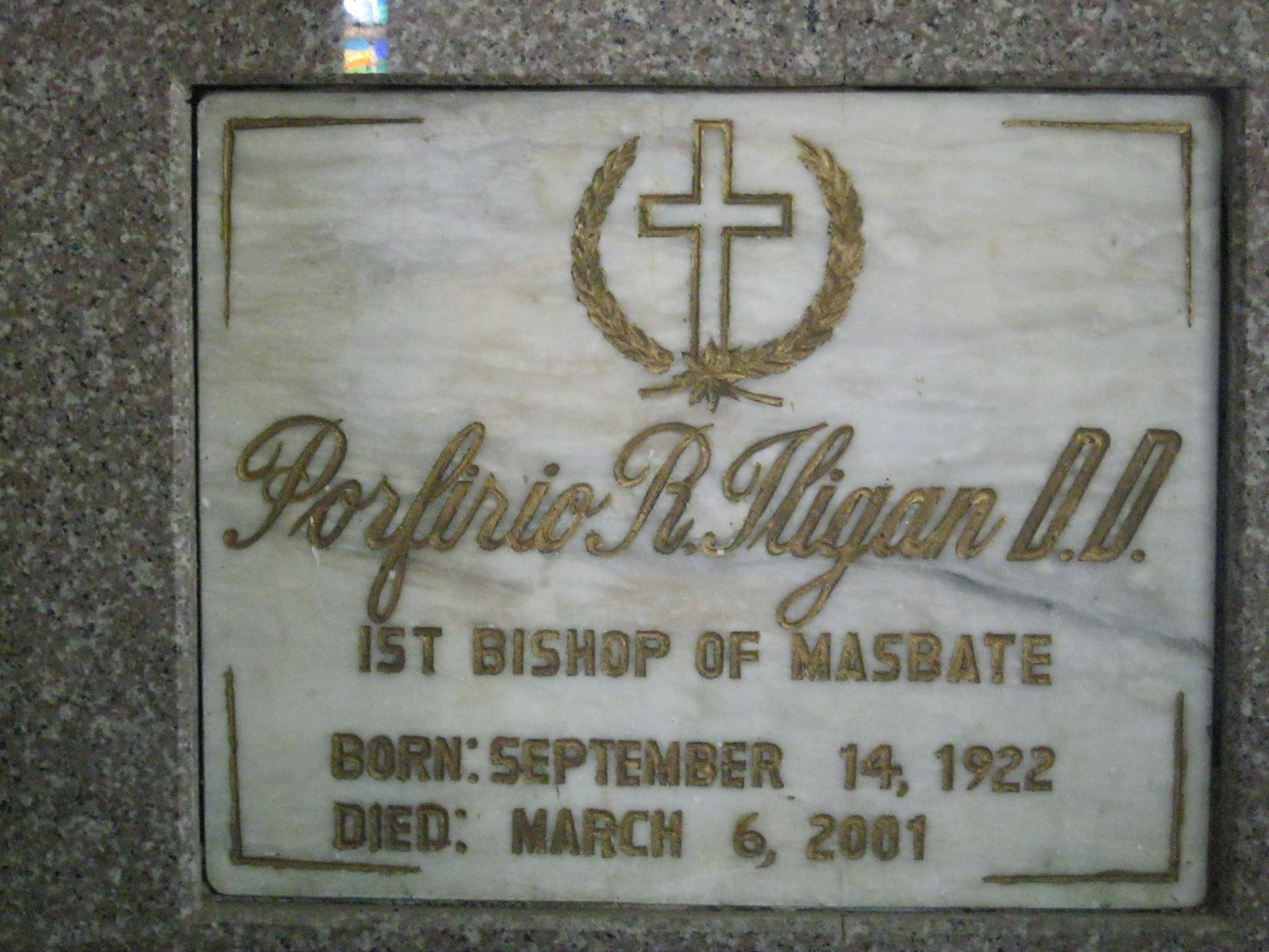 Crypt of the First Bishop of Masbate, near the Sanctuary of the Cathedral. Taken Dec. 28, 2010